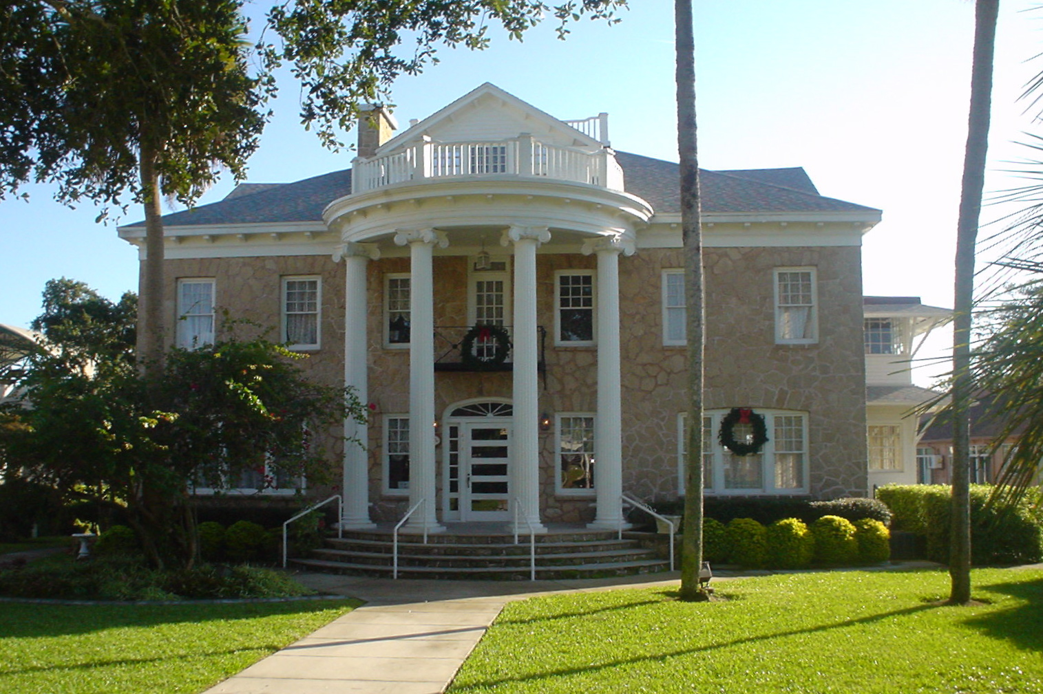 Porcher House in Cocoa, Florida. On the NRHP in Brevard County FL. I donate the photo to the public domain